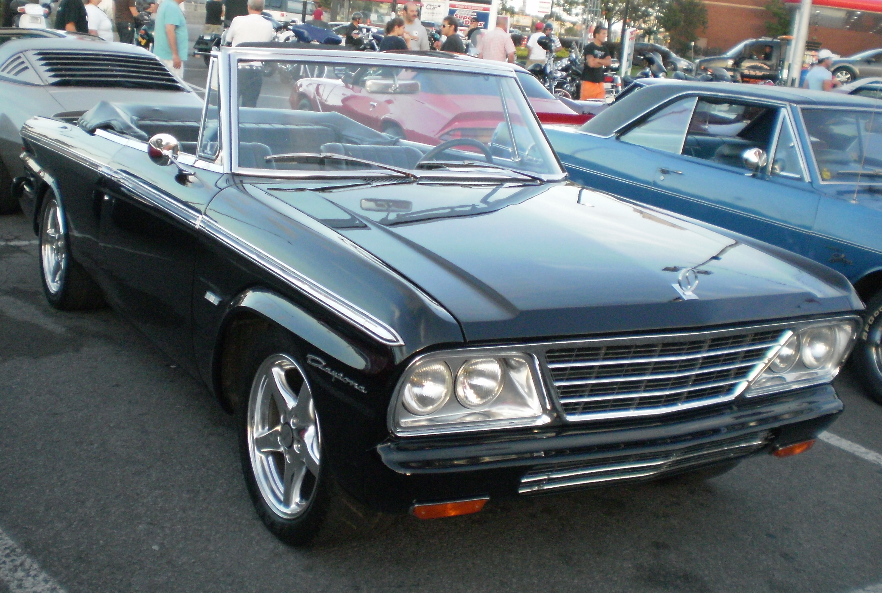 1964 Studebaker Daytona Convertible photographed in Montreal, Quebec, Canada at the Gibeau Orange Julep. Note